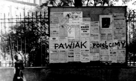 World War II graffiti from Warsaw, done by scouts from "Wawer" in June 1943. Words Pawiak Pomścimy ("Pawiak will be avenged") are a reference to infamous Pawiak prison and mass executions of its inmates conducted by German occupants. Bracka Street, the fence of the Bank Gospodarstwa Krajowego garden